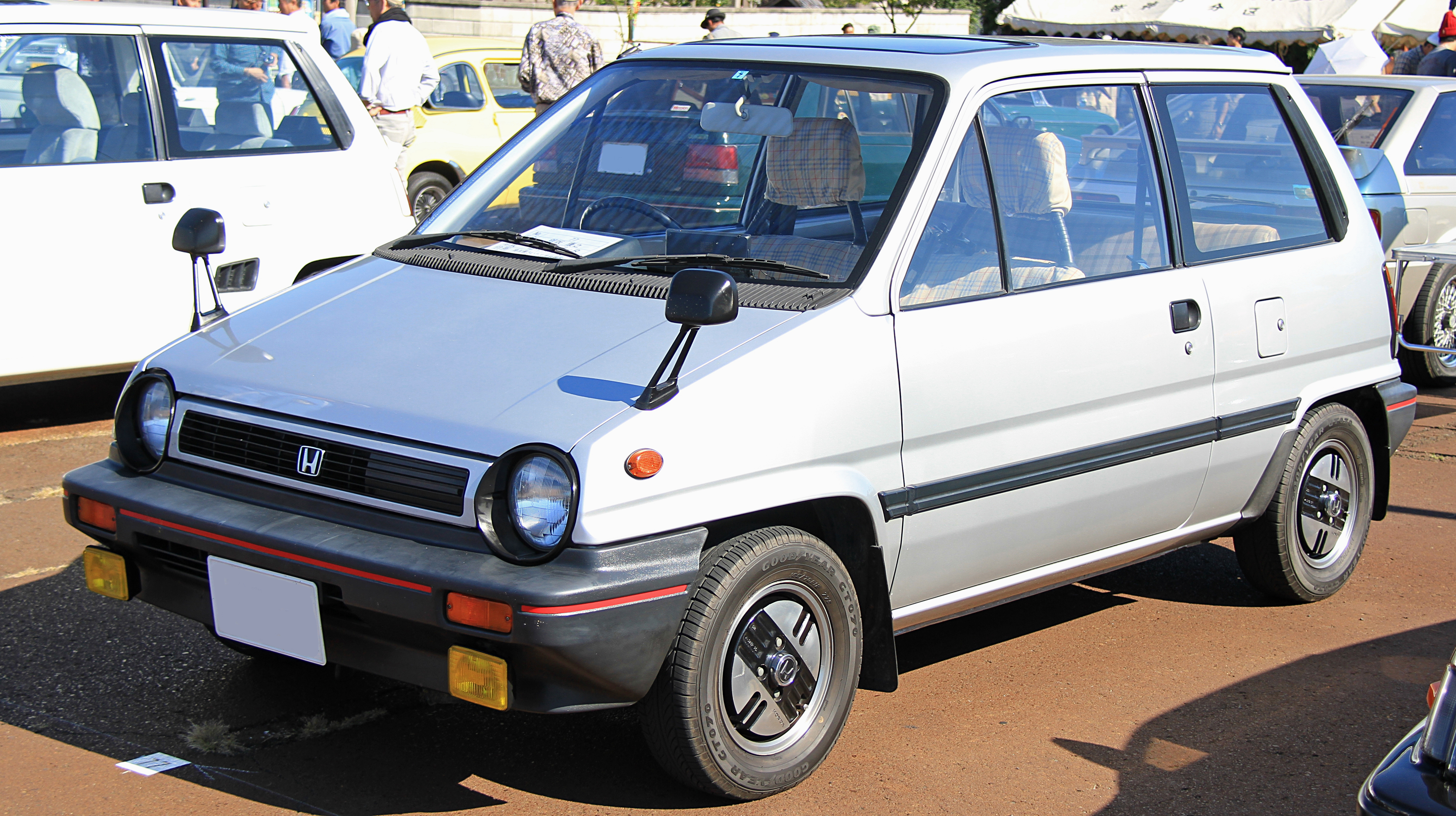 Honda City